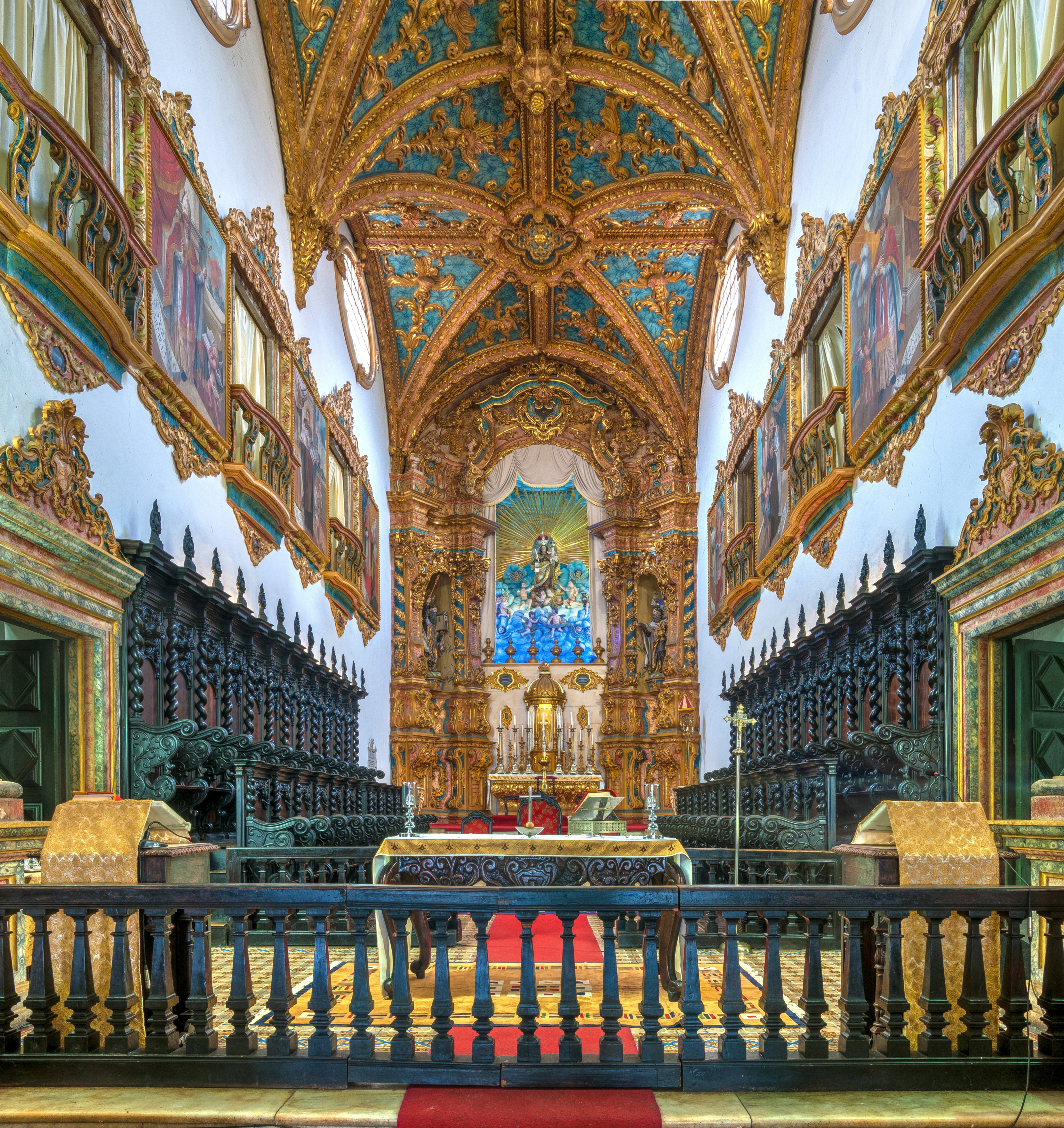 Altar-mor of the Basilica of Our Lady of Carmo, Recife, Pernambuco, Brazil.